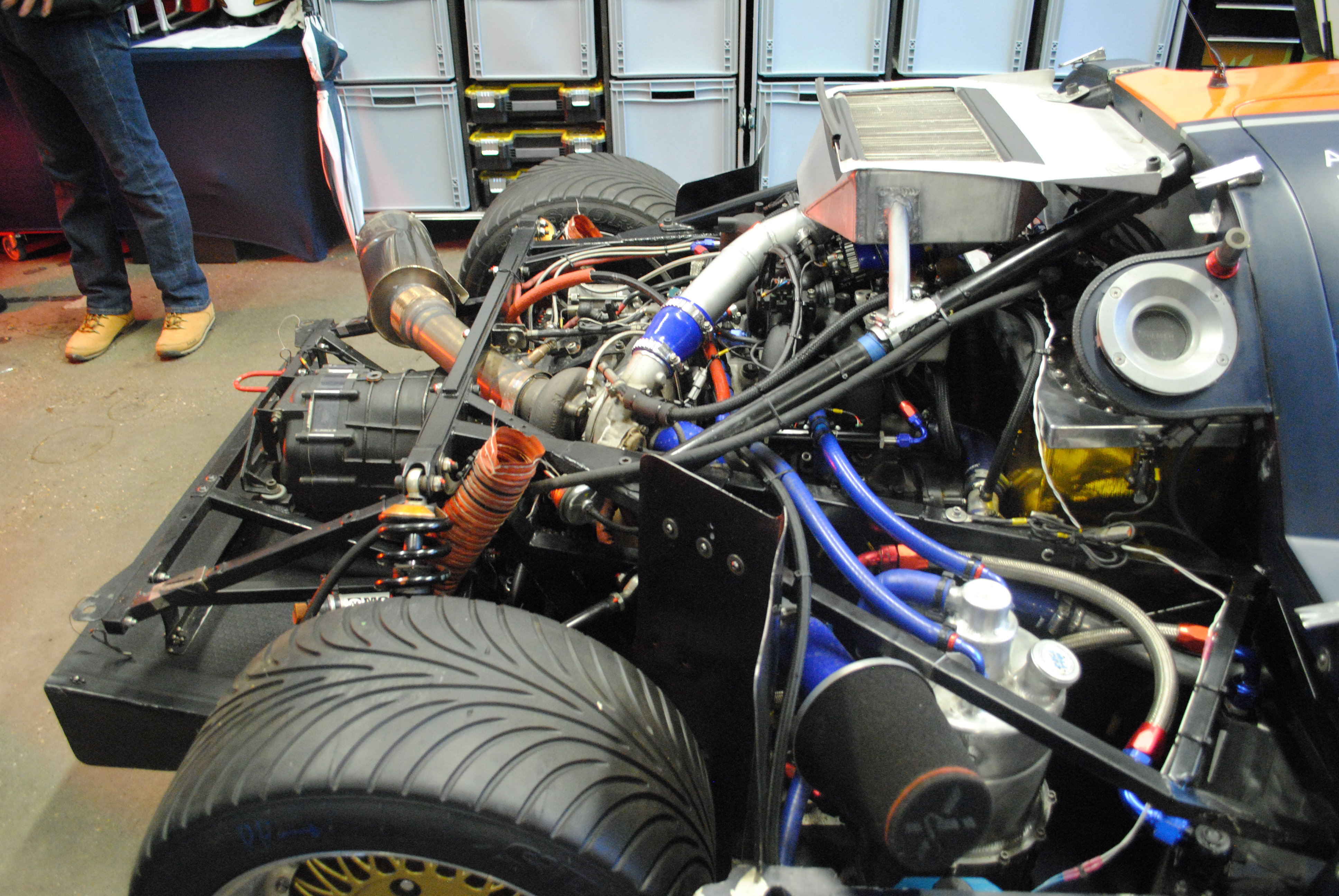 The engine of the Dutch-built Saker RAPX run by ALP Racing, driven by F1 driver Tony Brise's nephew David Brise and Alan Purbrick.